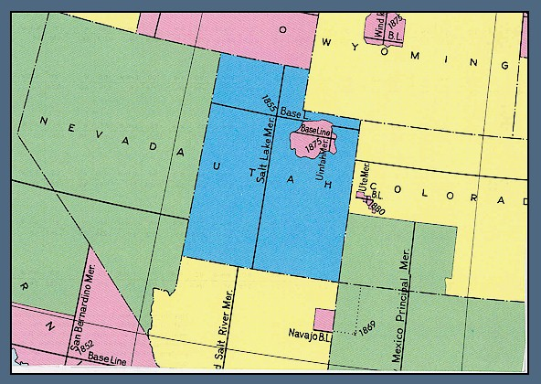 U.S. Bureau of Land Management map showing principal meridians and base lines used for cadastral surveys.